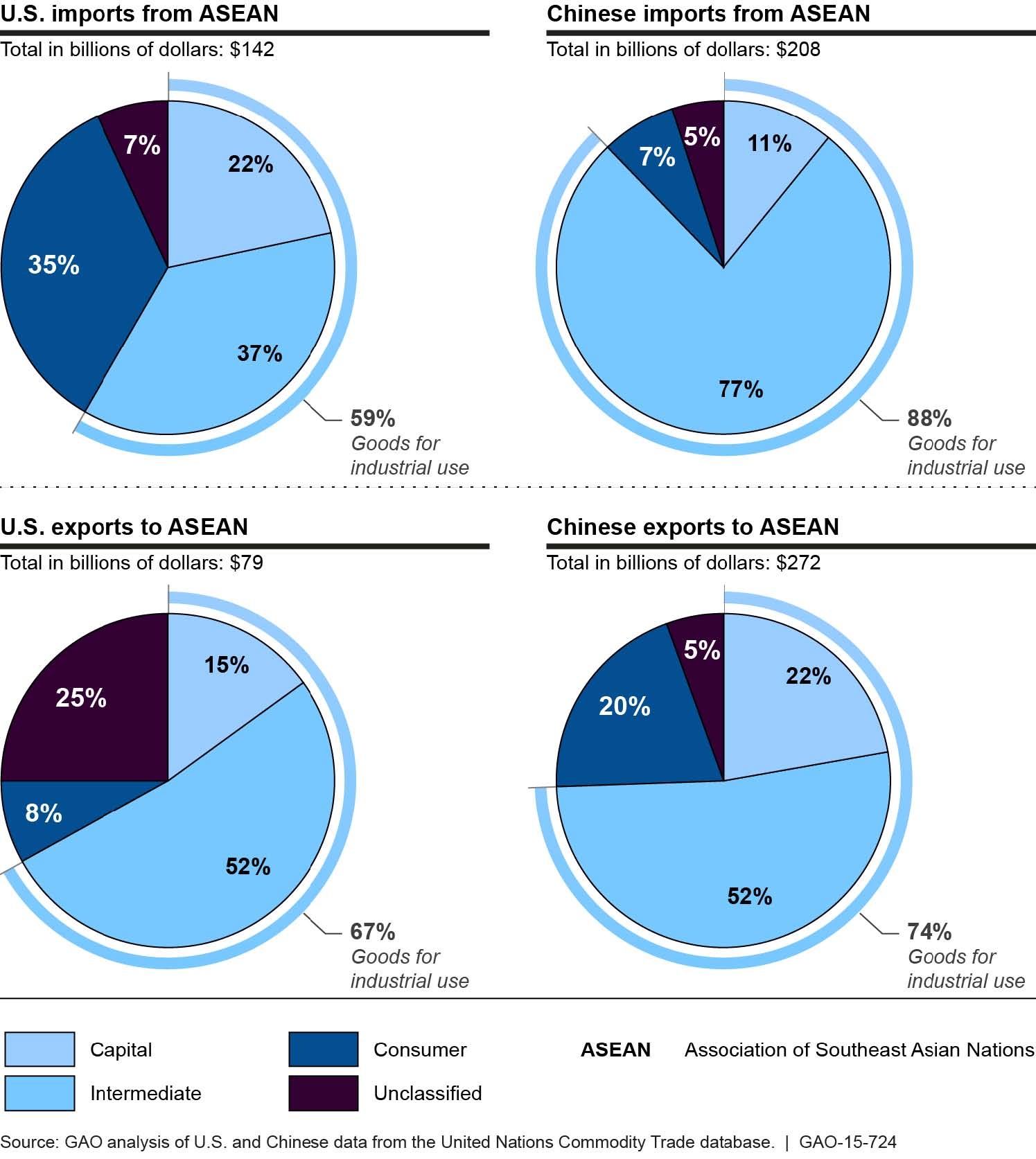 This image is excerpted from a U.S. GAO report: SOUTHEAST ASIA: Trends in U.S. and Chinese Economic Engagement Notes: We used the United Nations Statistics Division's Broad Economic Categories to classify U.S. and Chinese total trade in goods into these categories. We define goods for industrial use as capital and intermediate goods and consumer goods as consumption goods. According to the Organisation for Economic Co-operation and Development, an intermediate good can be defined as an input to the production process that has itself been produced and, unlike capital, is used up in production. Unclassified goods are goods that are not classified as capital, intermediate, or consumer goods. Some percentages do not sum to 100 due to rounding.